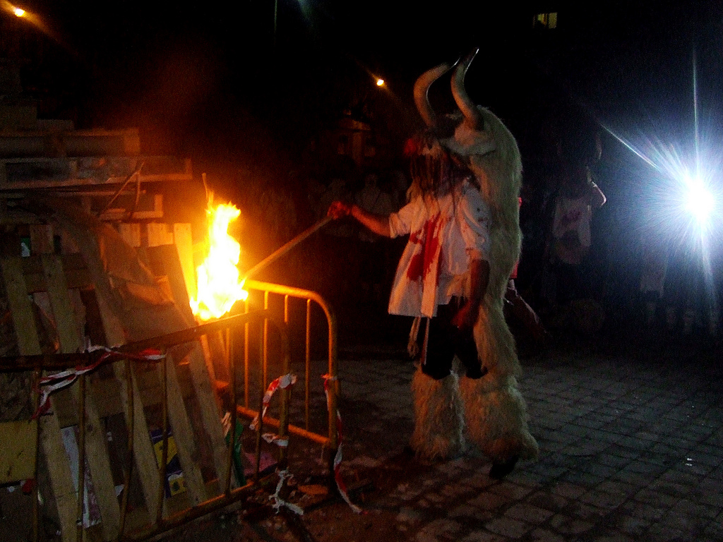 A momotxorro in traditional carnival of Altsasu